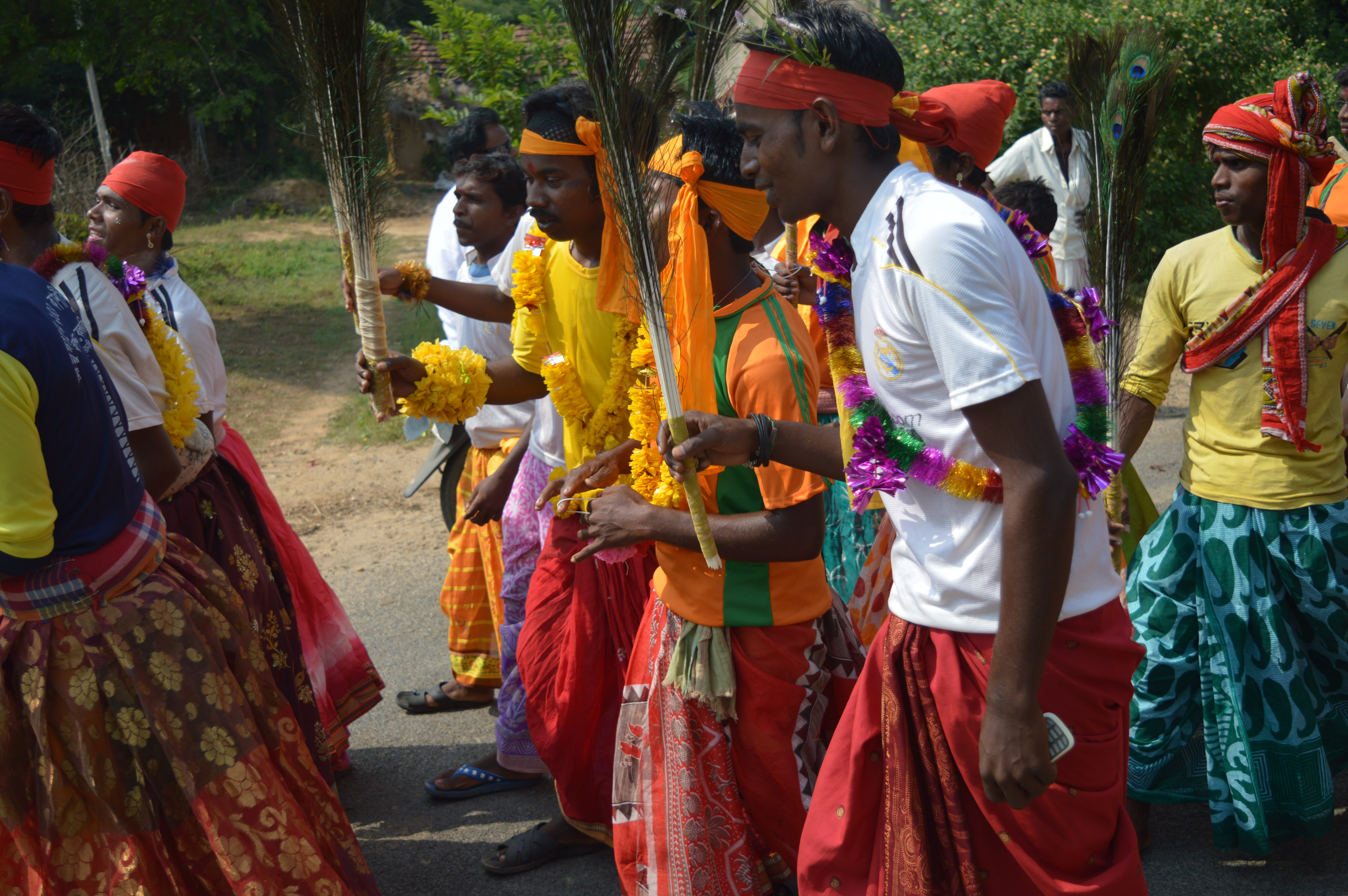 Dasai Dance is a tribal Santali dance of the state of West Bengal and Jharkhand of India.